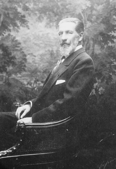 Prince Philippe, Duke of Orléans (1869–1926)